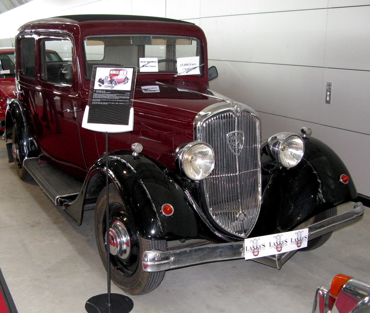 1934 Peugeot 301 CR